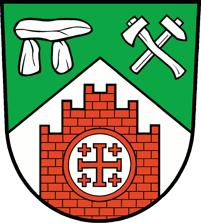 Coat of arms of Heiligengrabe